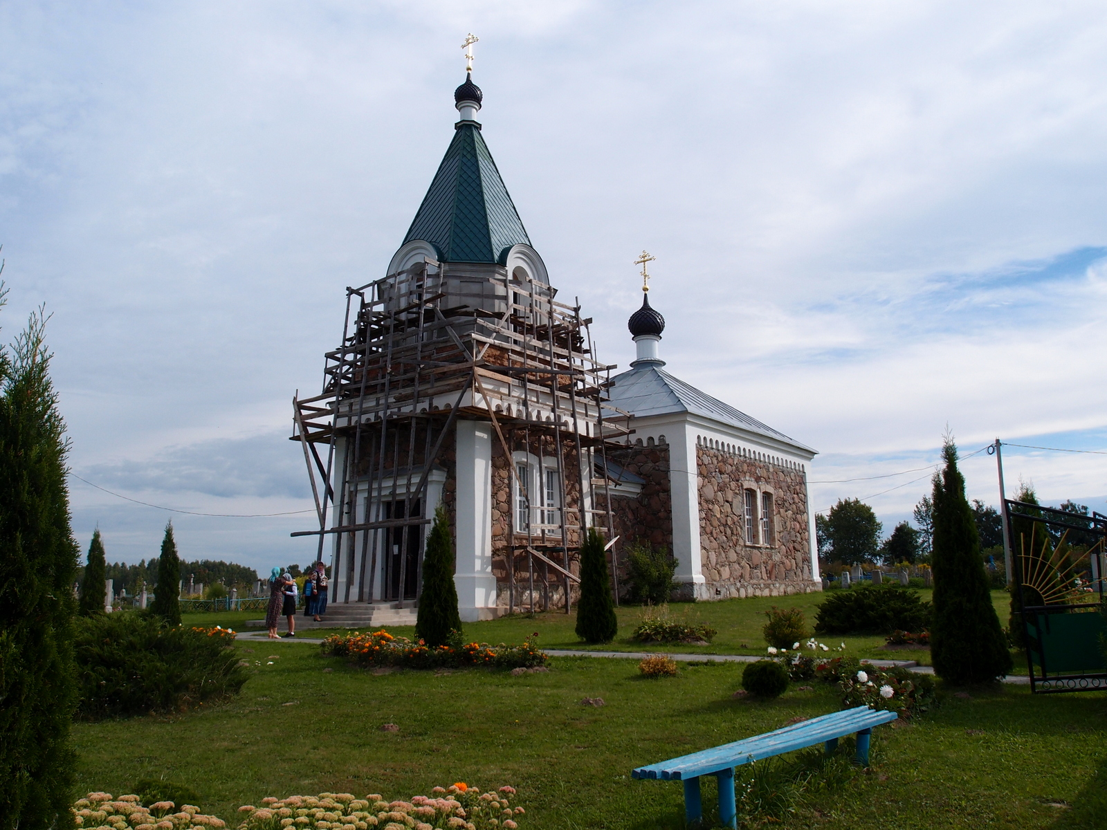 Church in Haradzilava